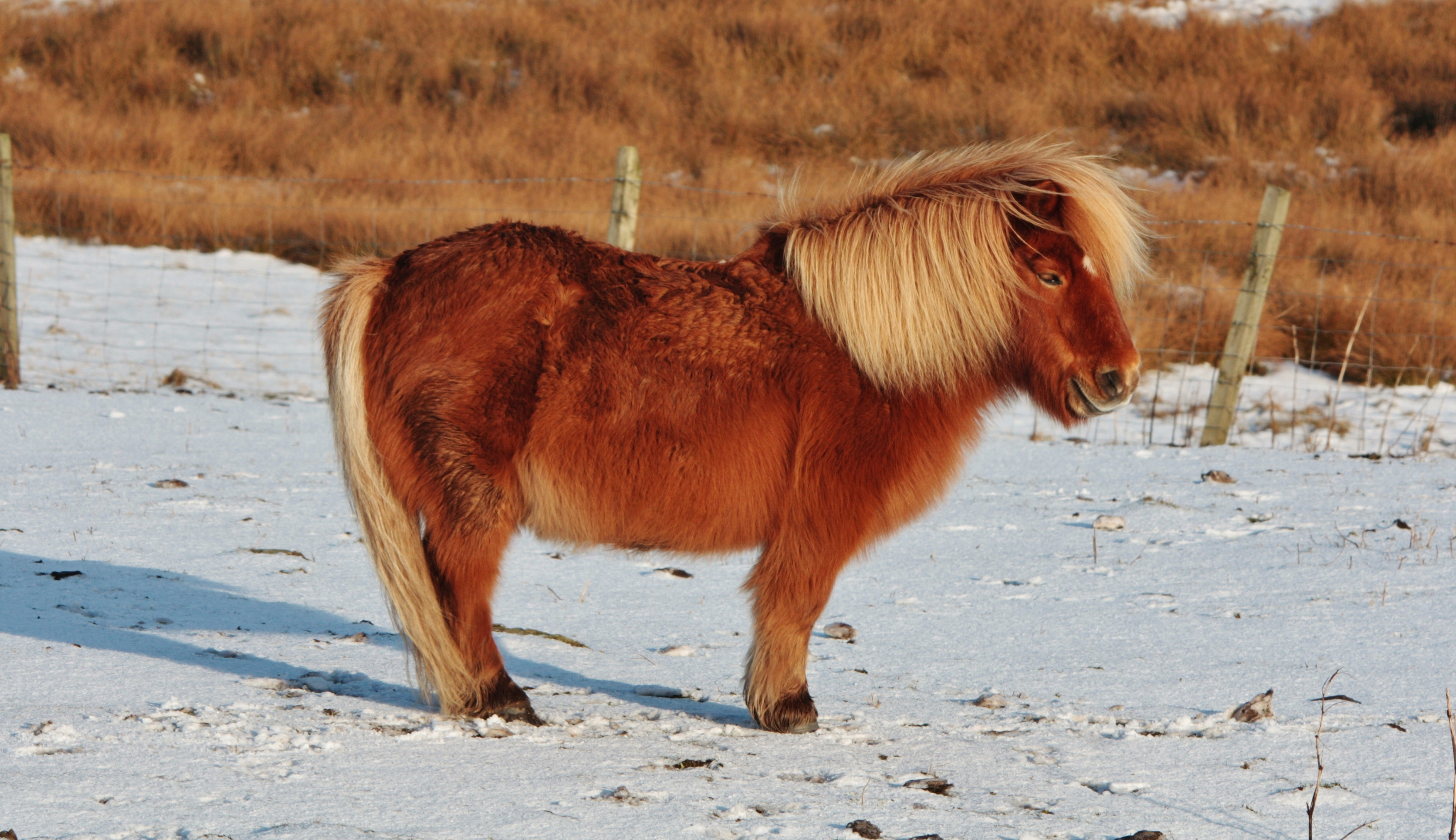 A Shetland pony in Shetland